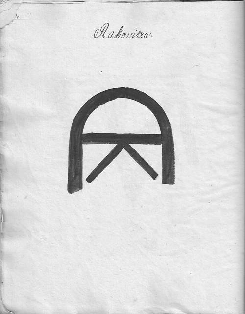 Cattle-brand of Rakovitza, 1826